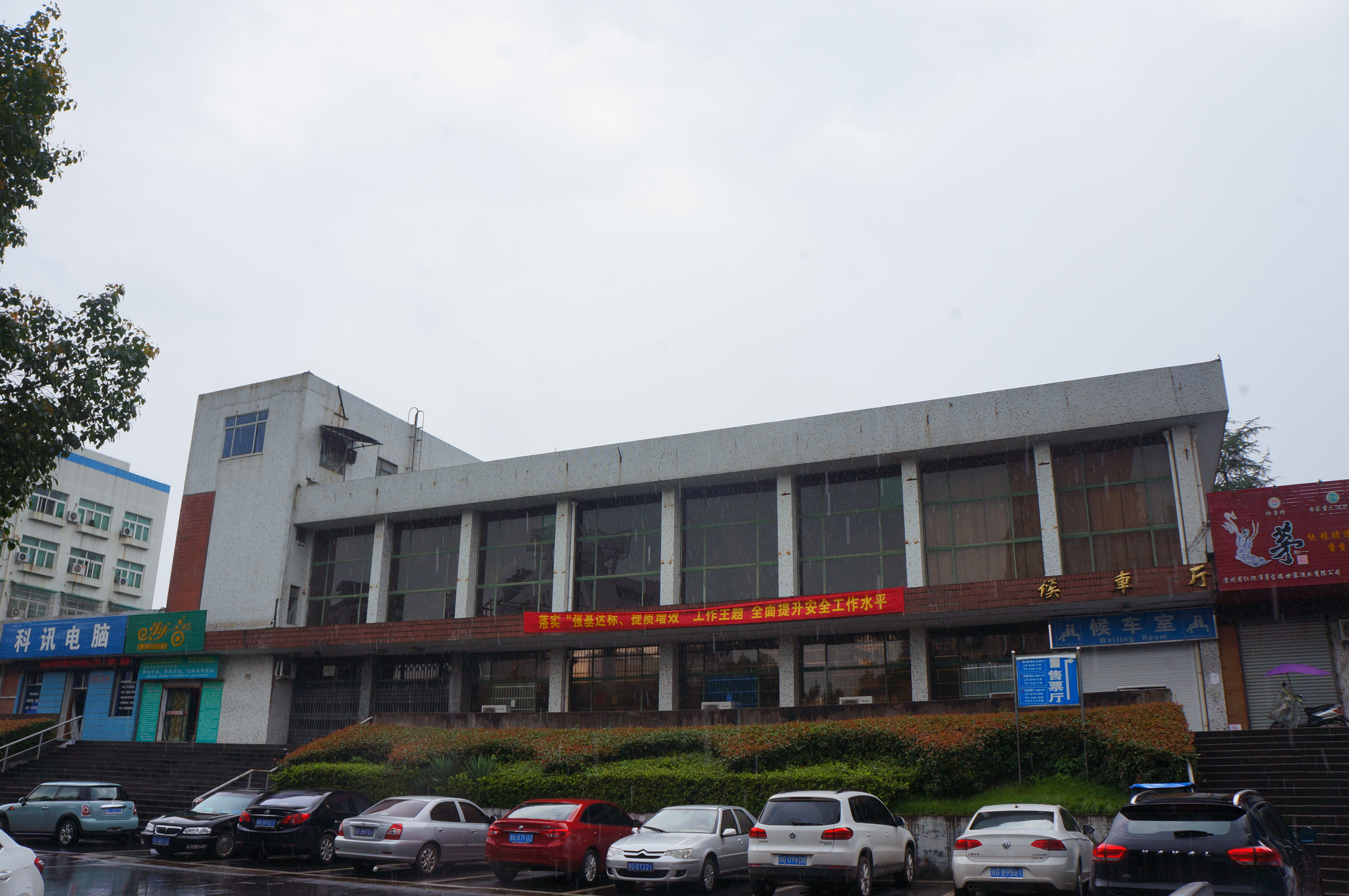 201707 Station building of Lanxi Station. The station name had been removed.